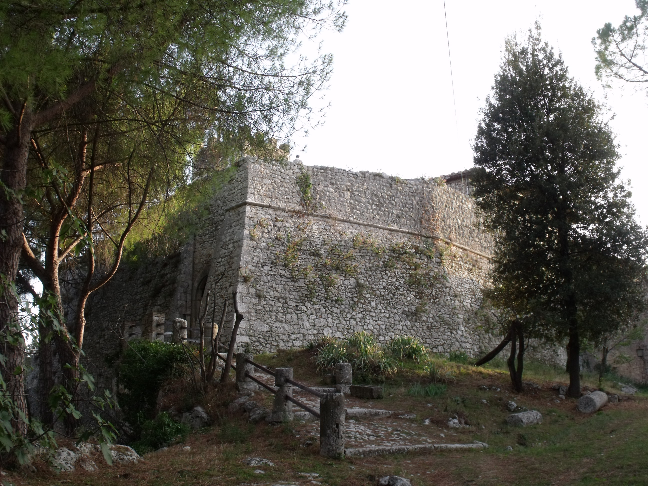 Fortress Rocca di Saturnia in Saturnia, Hamlet of Manciano, Maremma, Province of Grosseto, Tuscany, Italy